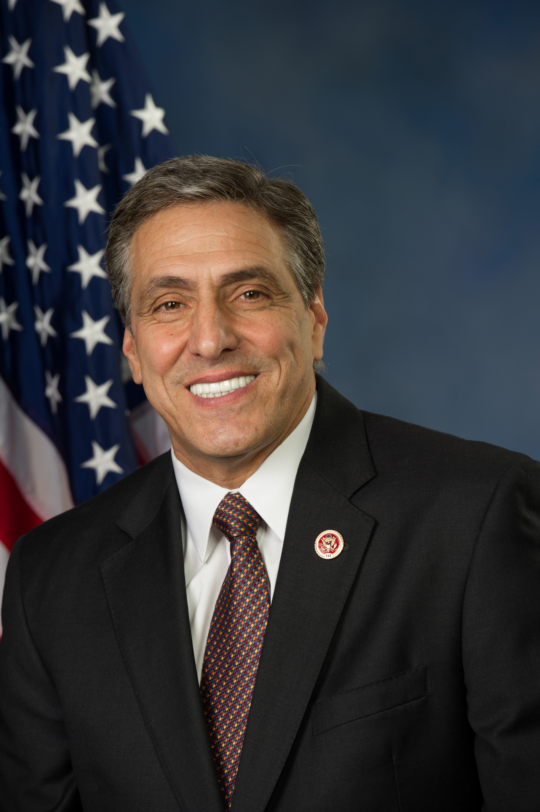 Official portrait of Congressman Lou Barletta.